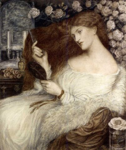 Lady Lilith (on 2 joined sheets) attrib. Henry Treffry Dunn (after Rosetti?) coloured chalk 35 x 25.inches